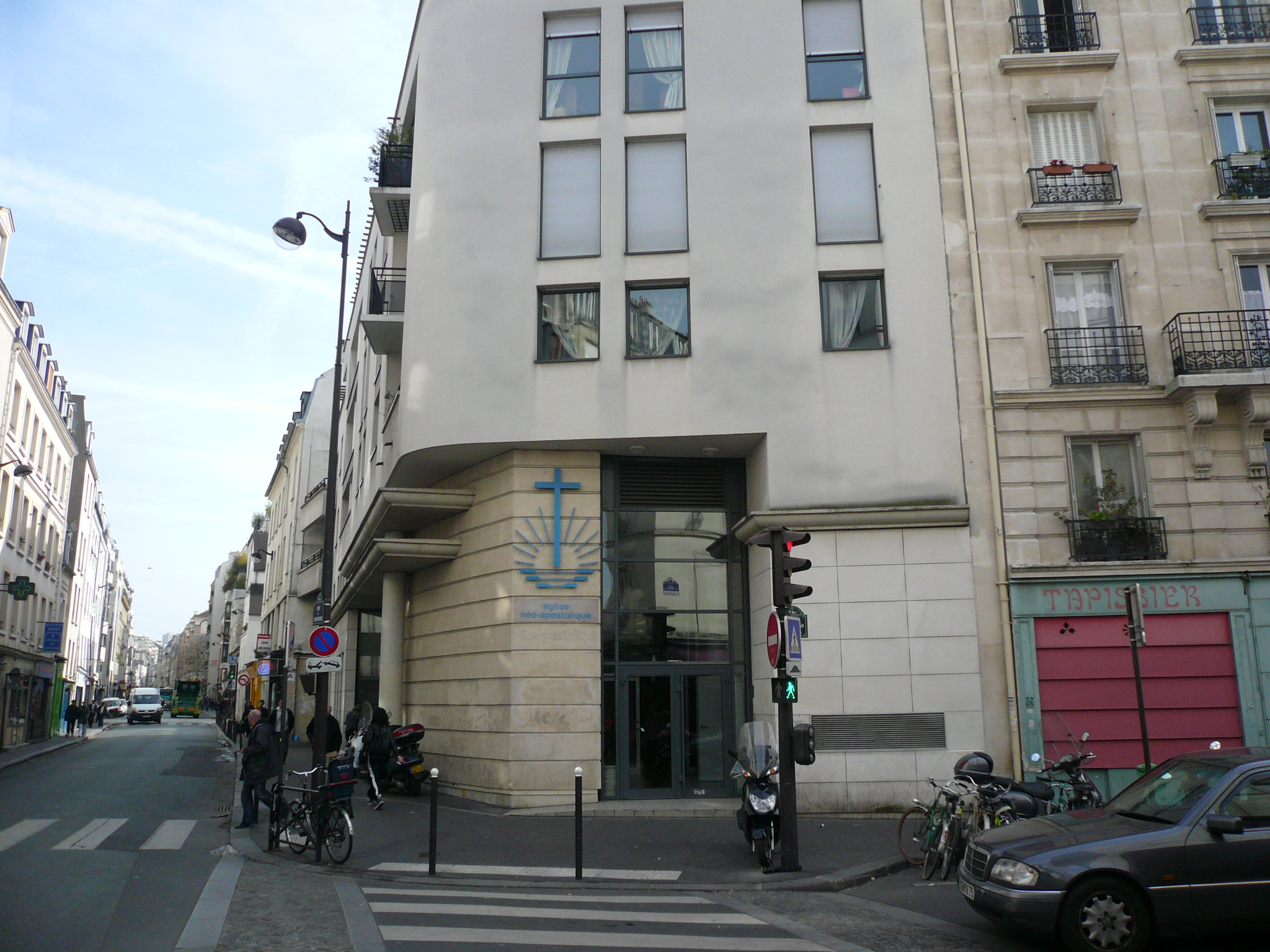 New Apostolic Church, Paris, 60 rue Trousseau